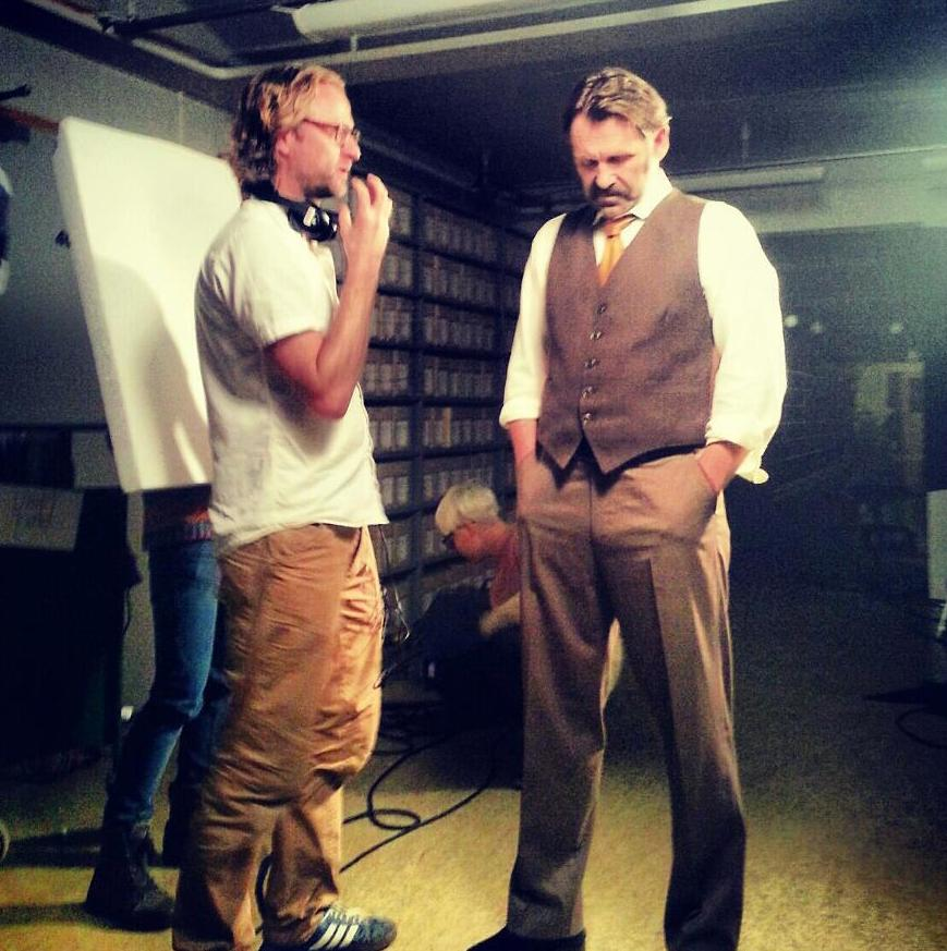 The National Archives of Norway launched their new profile film December 18 2012. These are photos from the shoot. Actor: Jørgen Langhelle. Director: Tor Einstabland Production: Sheriff Film Company (2012)